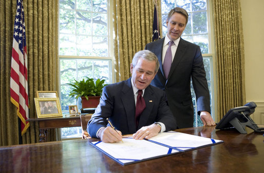 President Signs H.R. 315, H.R. 562, H.R. 1463, H.R. 1556, H.R. 2322, H.R. 4768, H.R. 4805, H.R. 5026, H.R. 5428, H.R. 5434, S. 2856, S. 3661, and S. 3728 With Sen. Bill Frist (R-Tenn.) looking on, President George W. Bush signs into law S. 3728, the North Korea Nonproliferation Act of 2006, Friday, Oct. 13, 2006, in the Oval Office. White House photo by Eric Draper